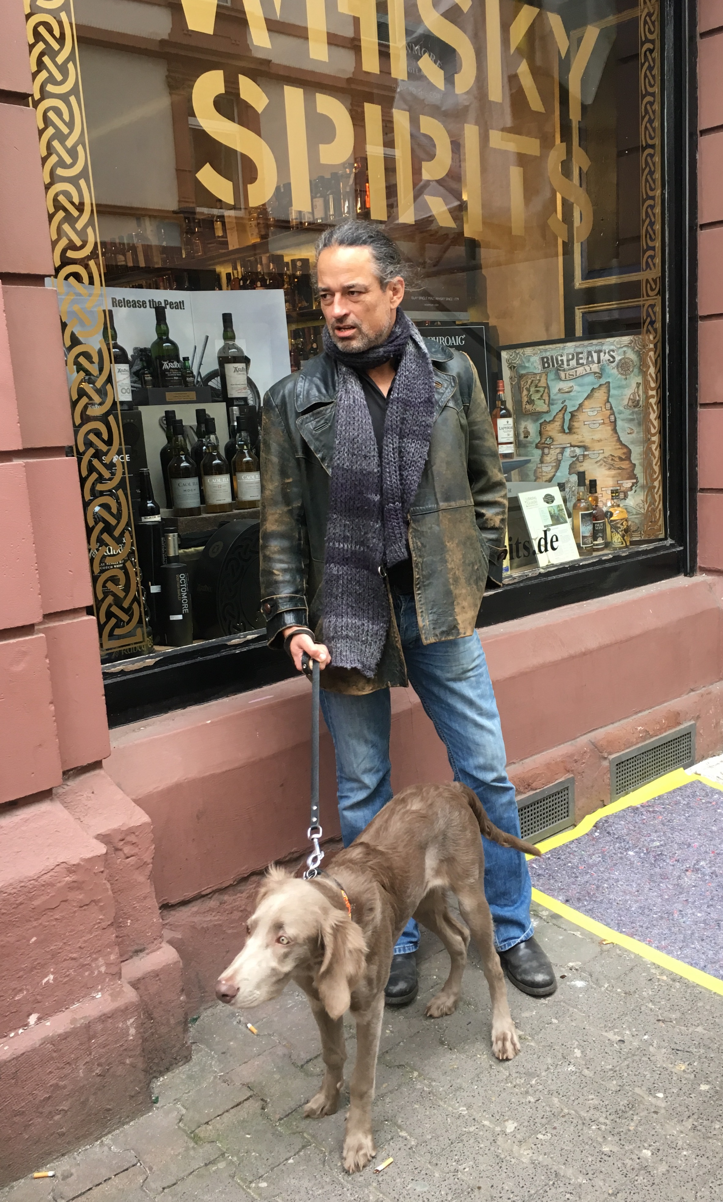 Boris Hillen Frankfurt, November 2016